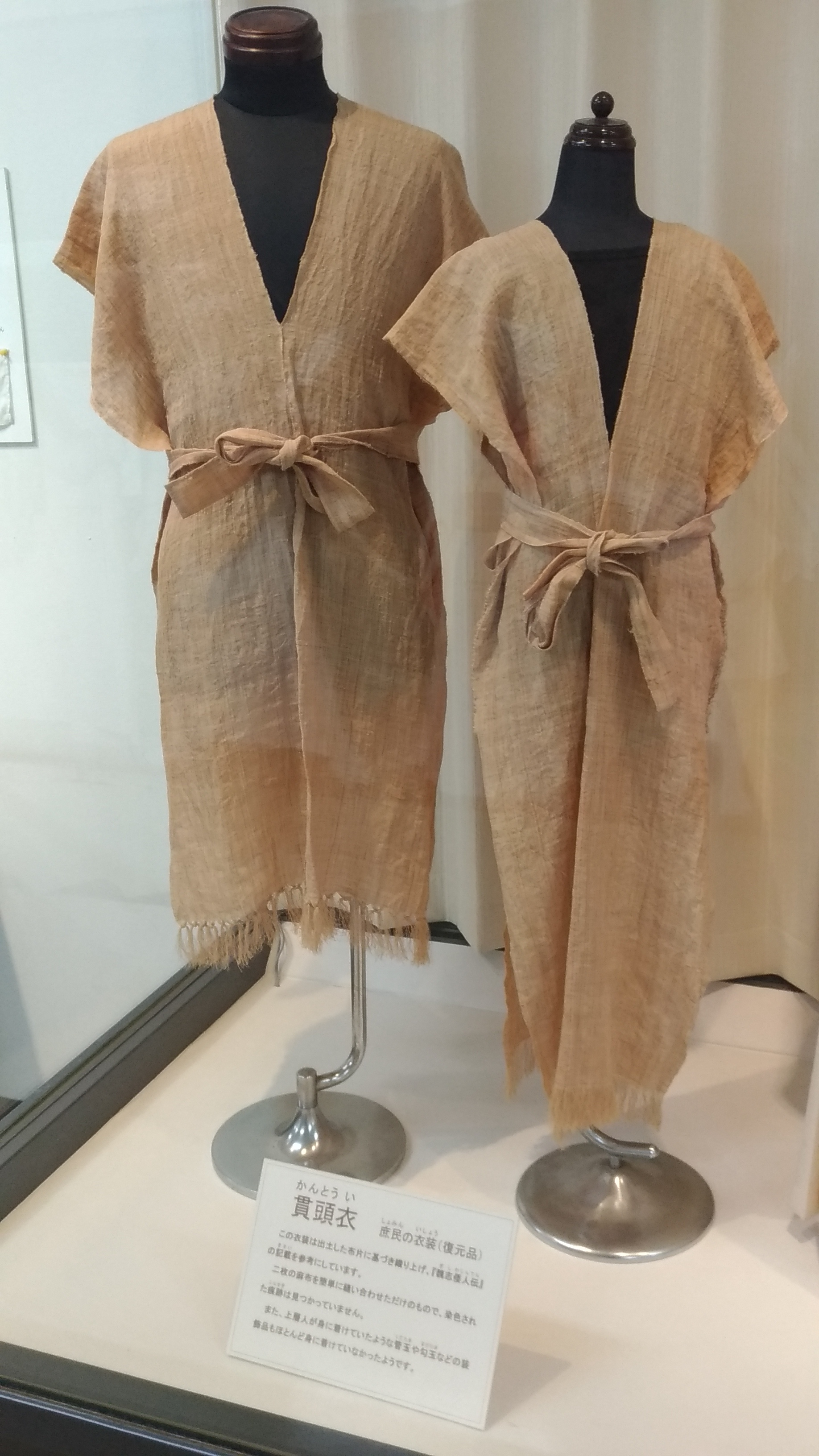 Replica of clothes at Yoshinogari Ancient Ruins